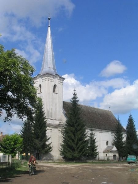 Vârghiş Unitarian Church, Covasna County, Transylvania, Romania